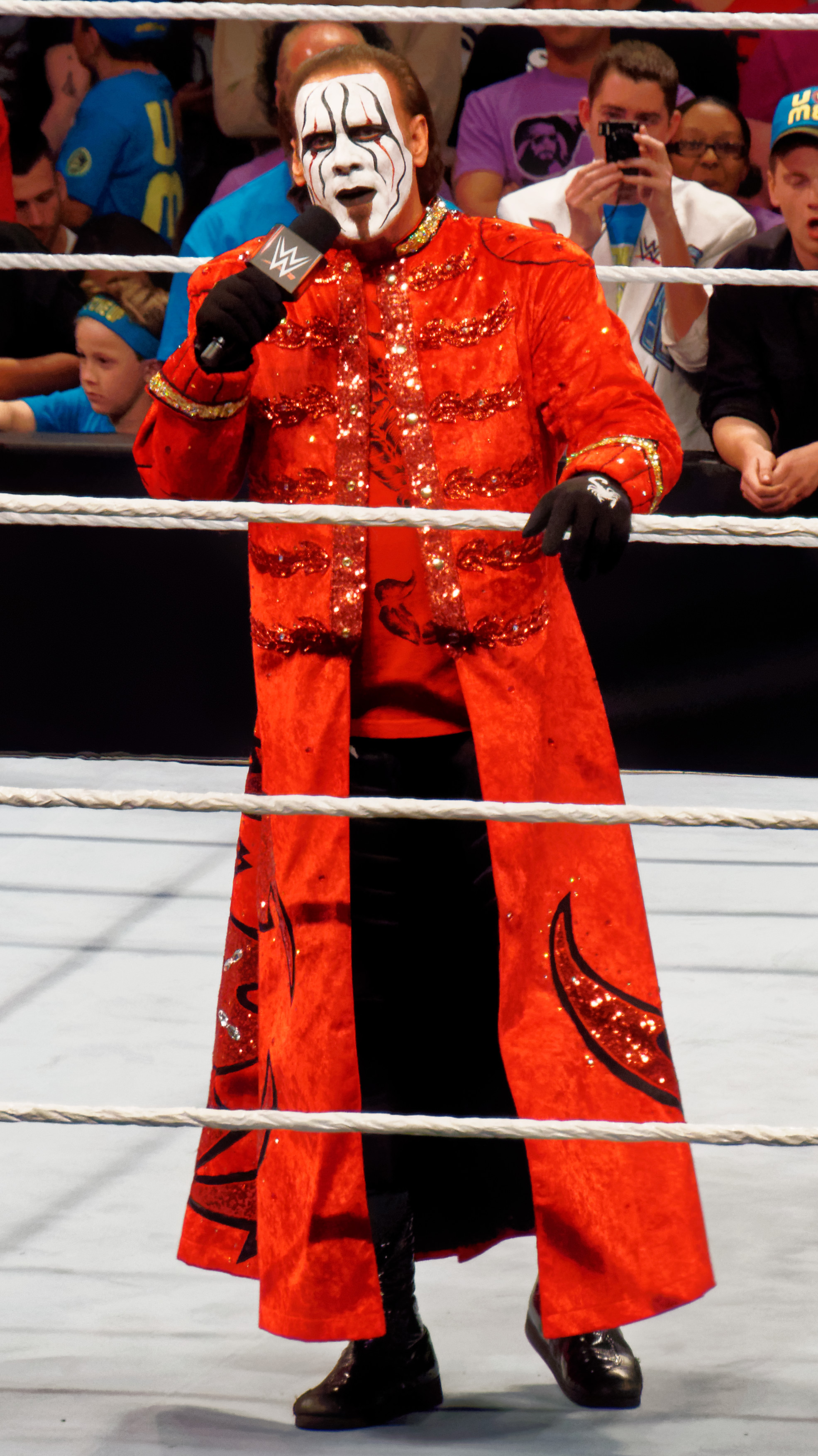 Sting delivering a promo at a WWE Raw event on March 30, 2015.